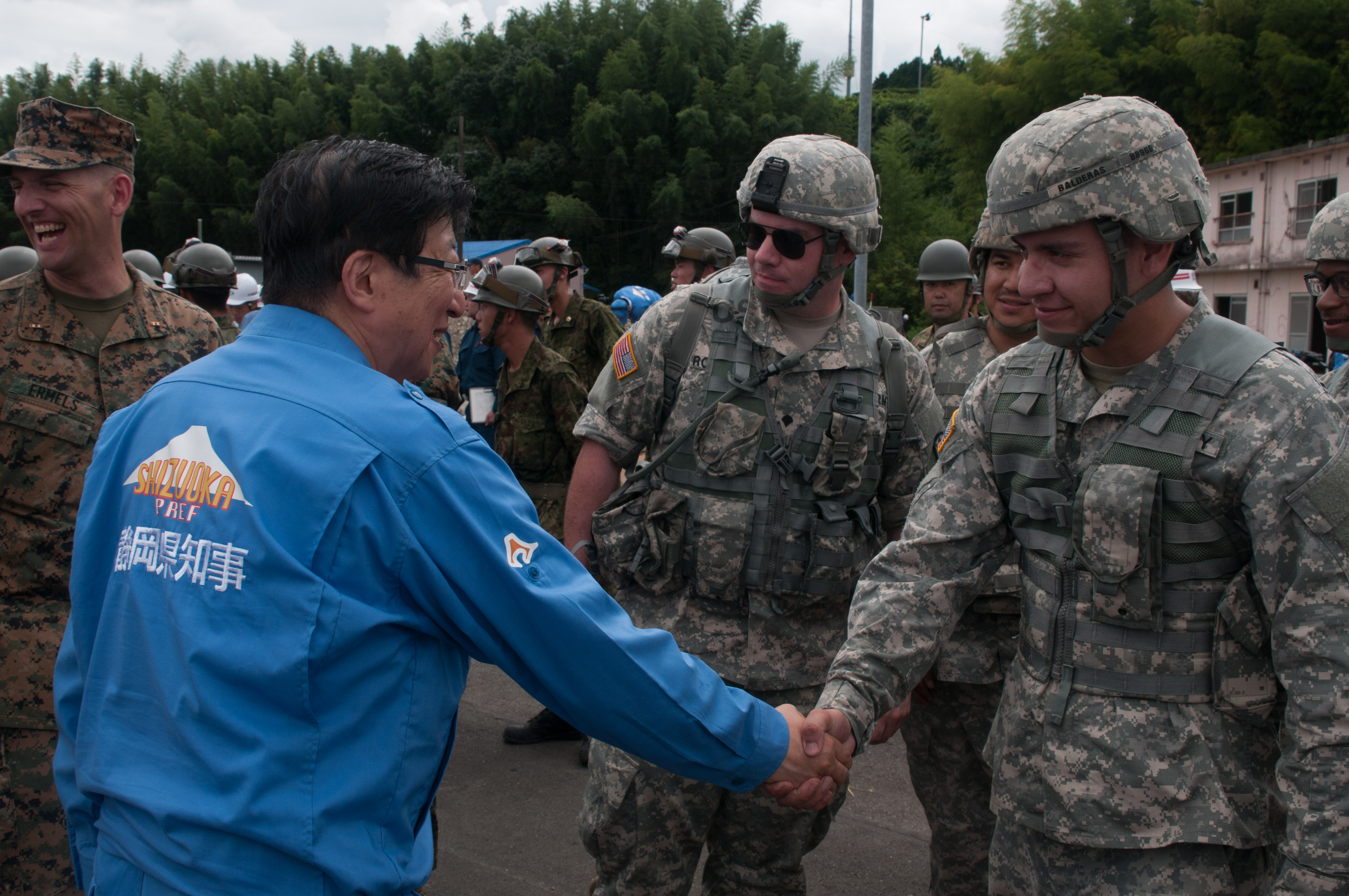 Heita Kawakatsu, Governor of Shizuoka Prefecture, appreciated Army soldiers who participated in Shizuoka Prefecture and Kakegawa City Disaster Drill in Kakegawa City, Shizuoka Prefecture on September 4, 2016.